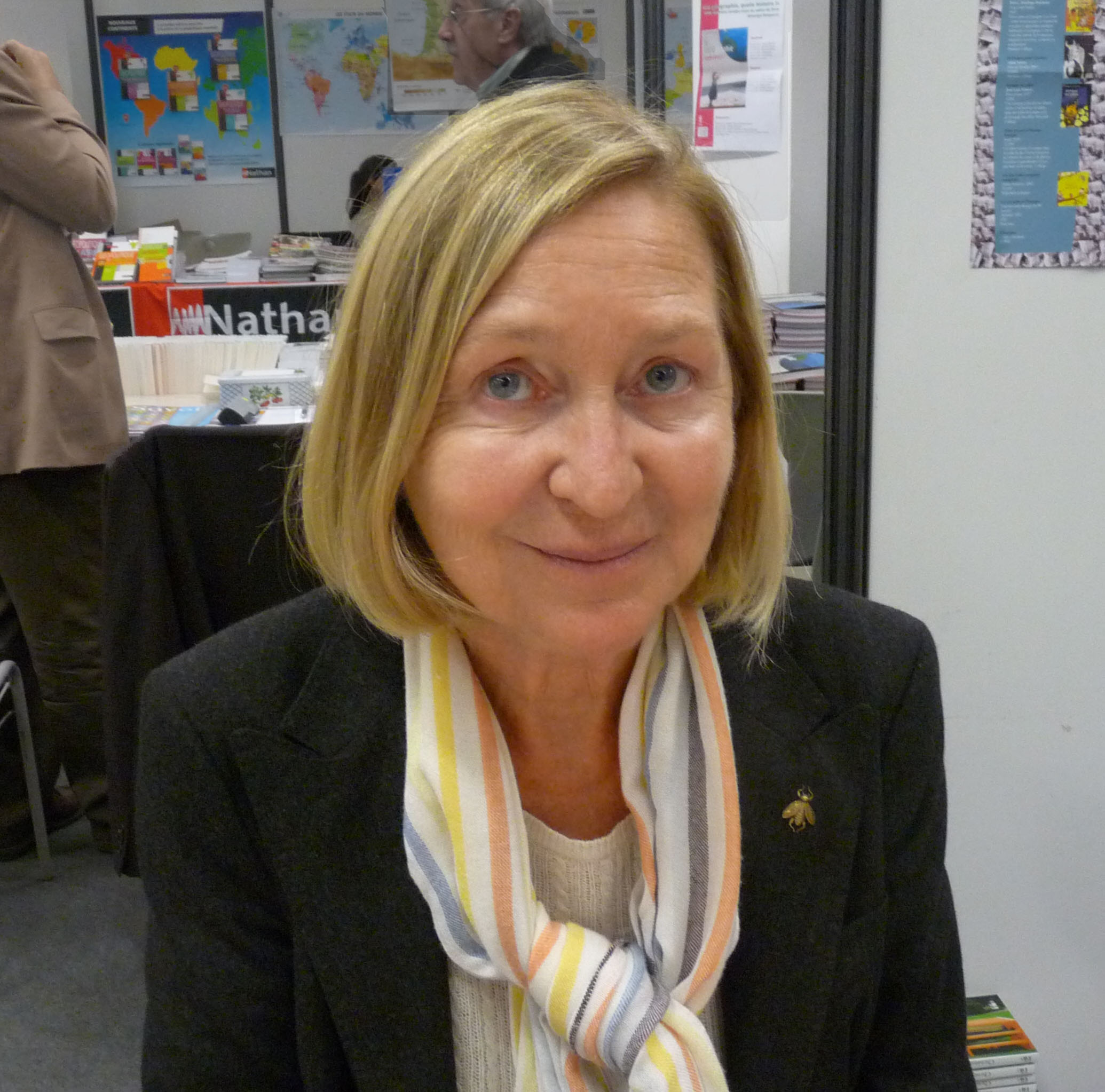 French writer Florence Delay